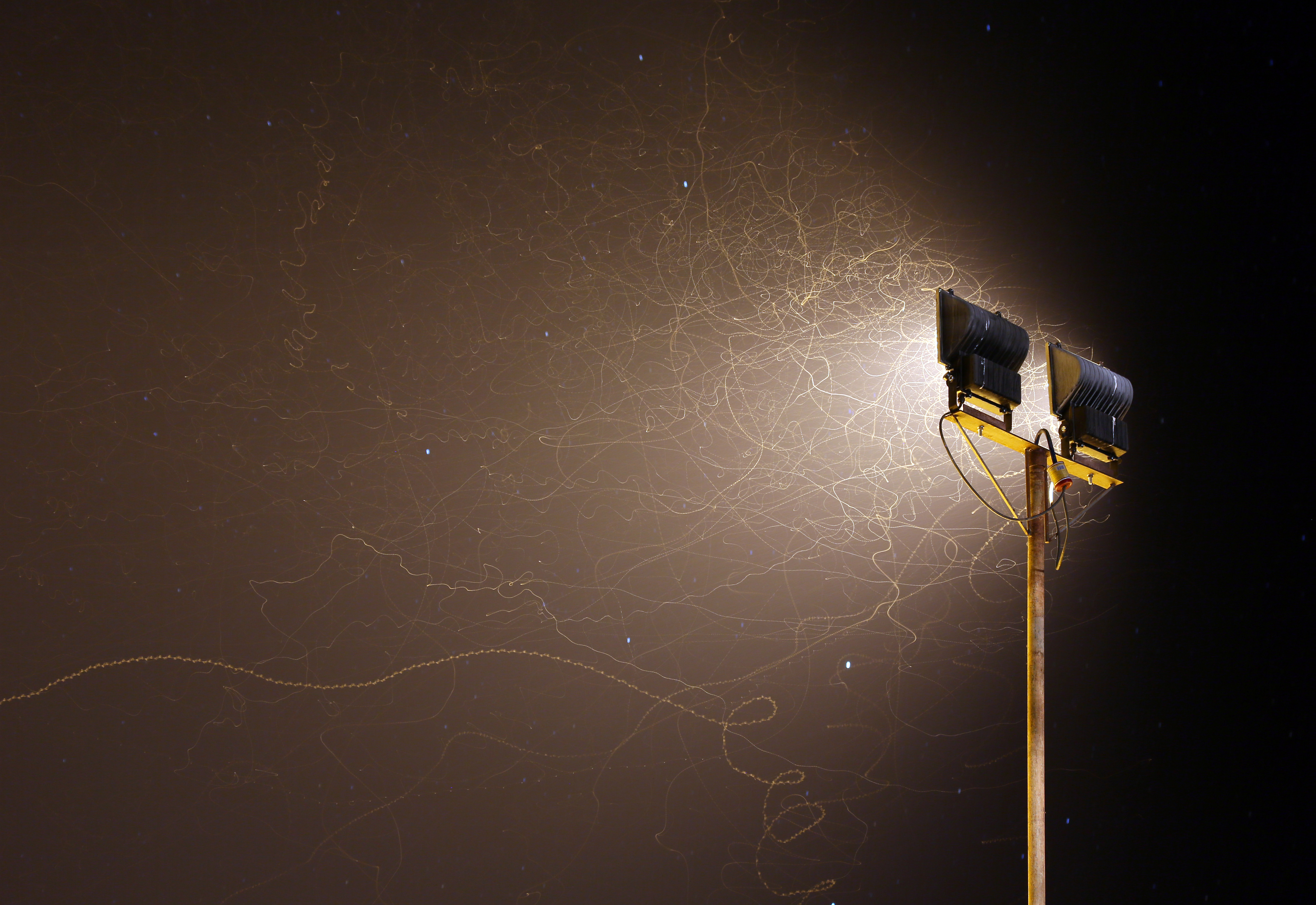 Nightly insects flights in front of a spotlight at a waterhole in Namibia, Okambara Elephant Lodge with visible stars in the background.